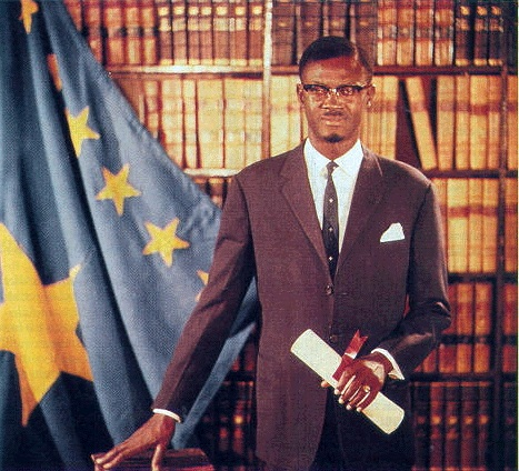 Official Congo government portrait of Patrice Lumumba as the Prime Minister of the Democratic Republic of the Congo